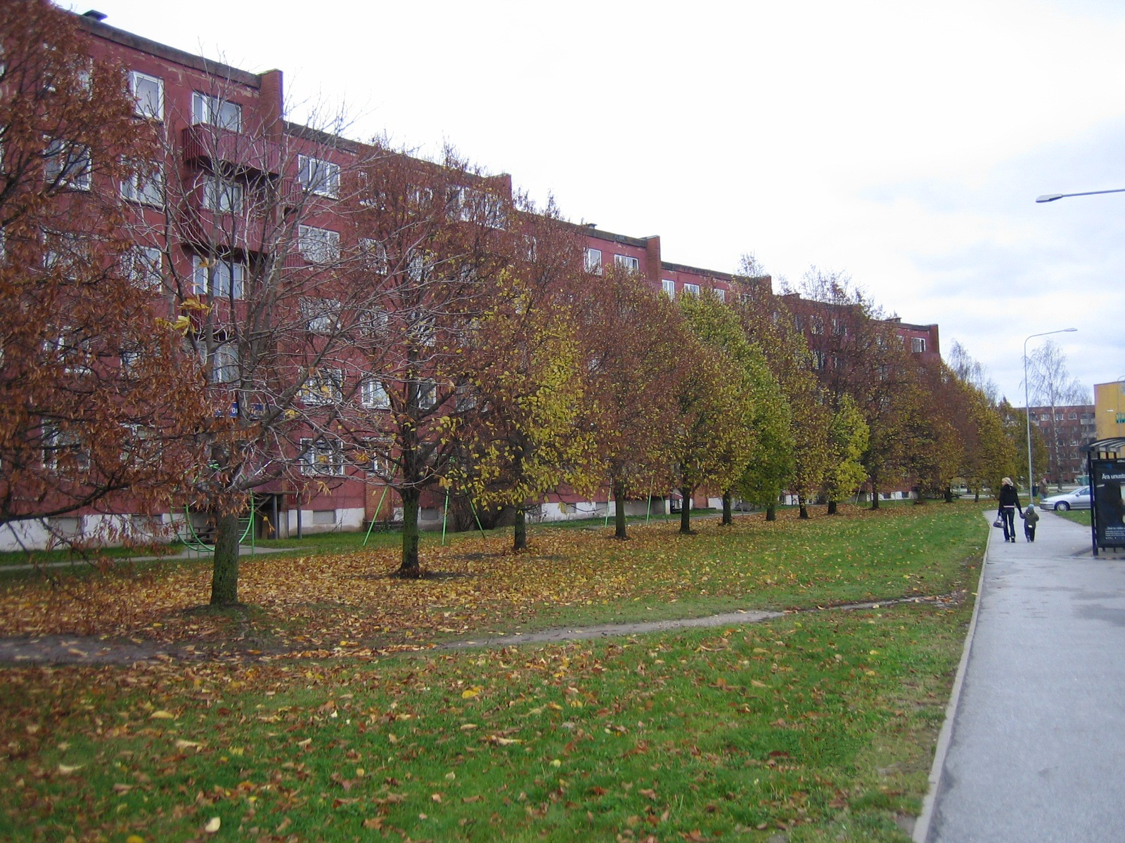 Annelinn - a quarter of Tartu